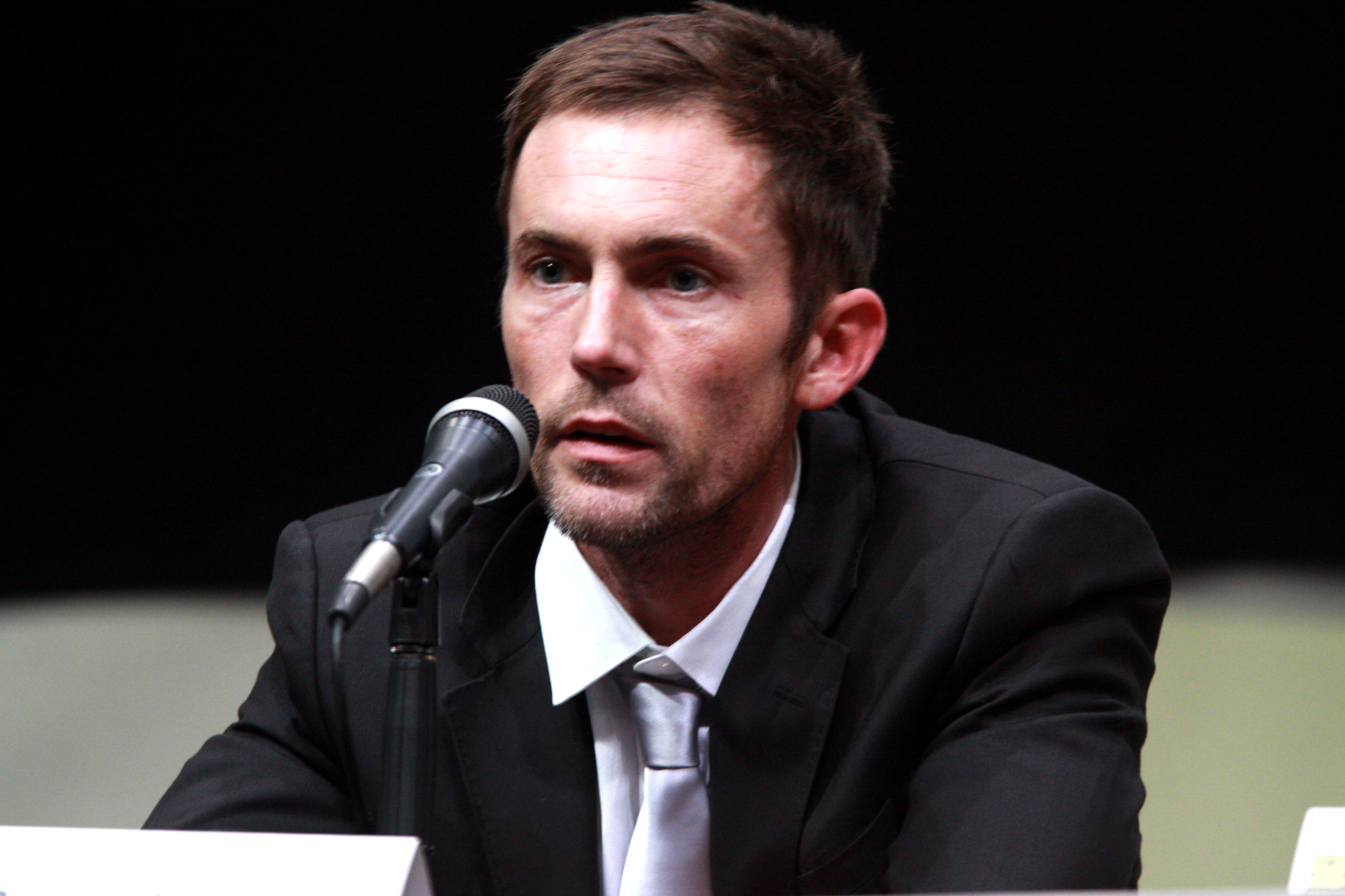 Desmond Harrington speaking at the 2013 San Diego Comic Con International, for "Dexter", at the San Diego Convention Center in San Diego, California.